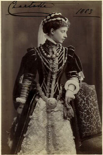 Princess Charlotte of Prussia (1860–1919)